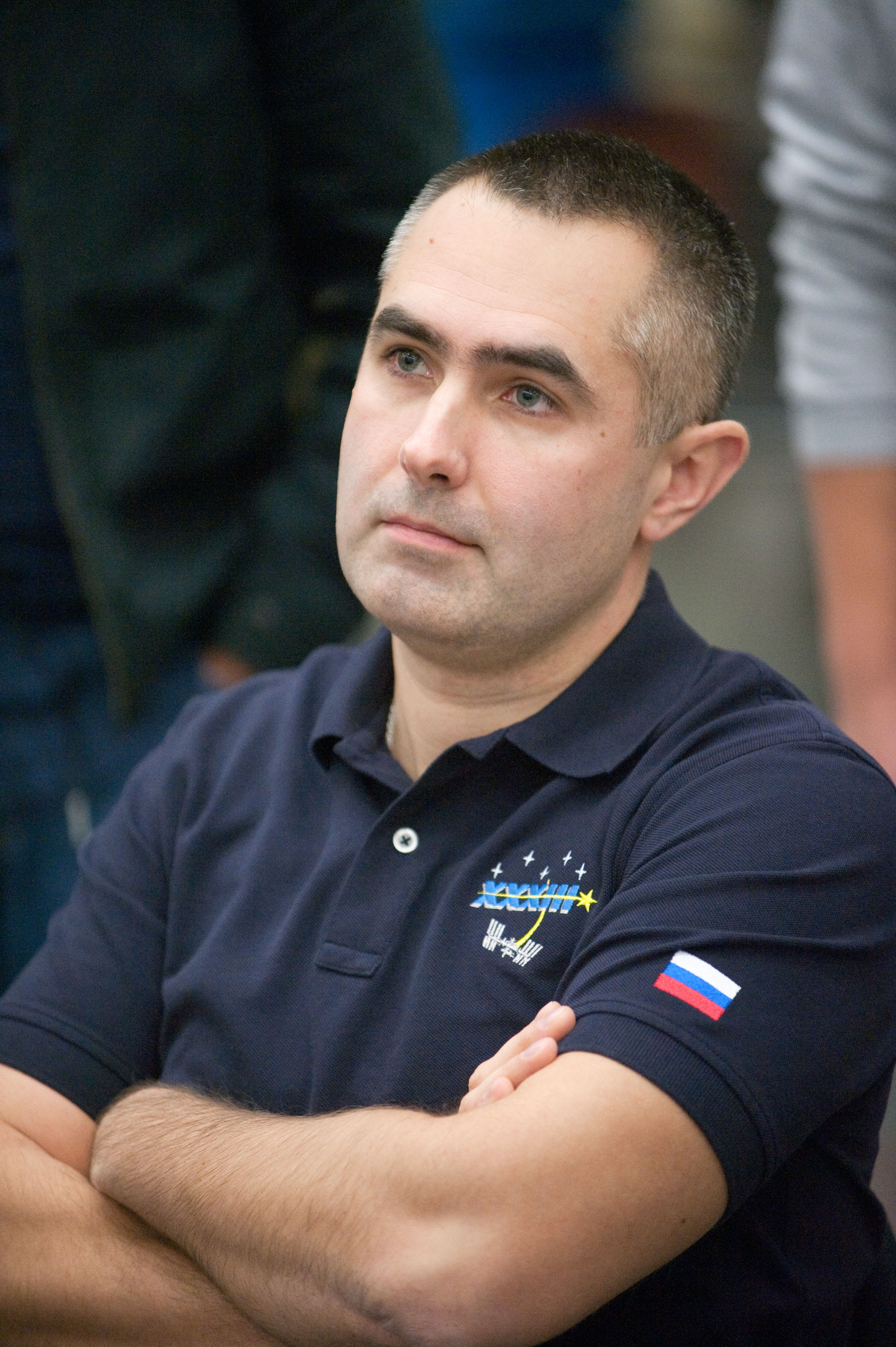 Russian cosmonaut Evgeny Tarelkin, Expedition 33/34 flight engineer, is pictured during an emergency scenario training session in the Space Vehicle Mock-up Facility at NASA's Johnson Space Center.